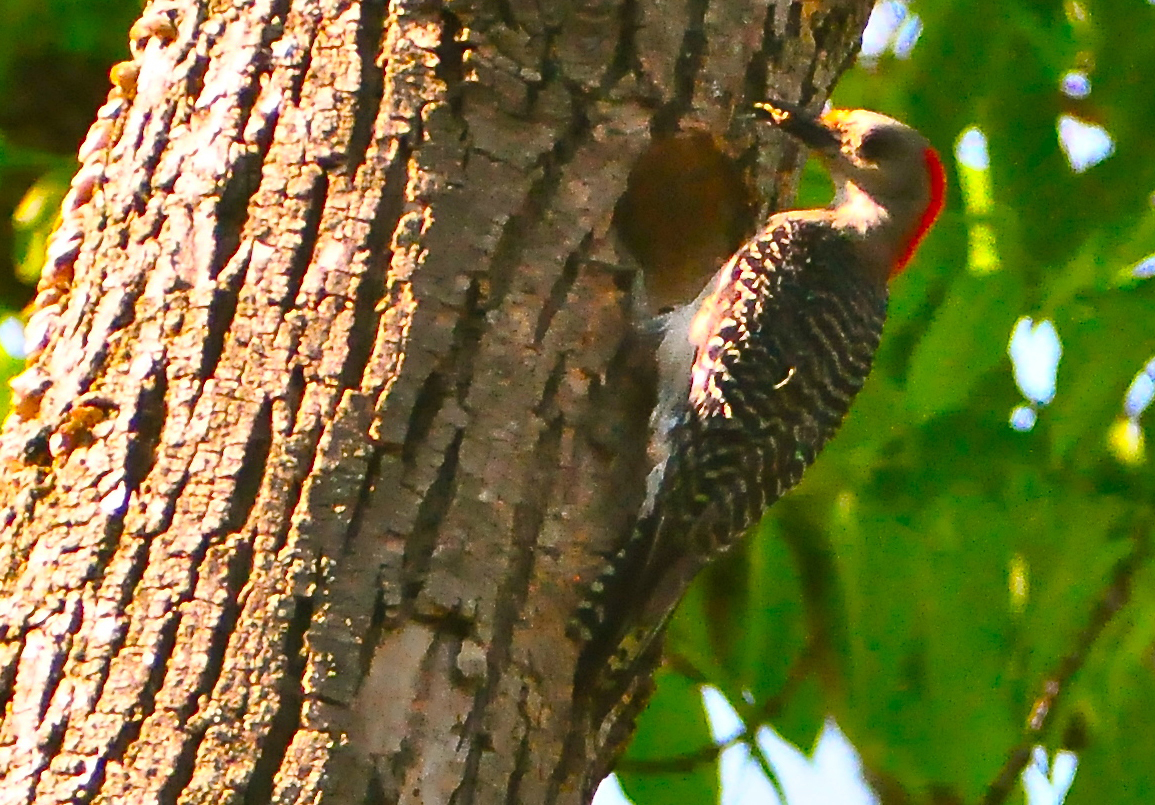 Female Red-bellied Woodpecker near Syracuse, NY feeding her young. The male is out foraging, or resting. They take turns at everything.